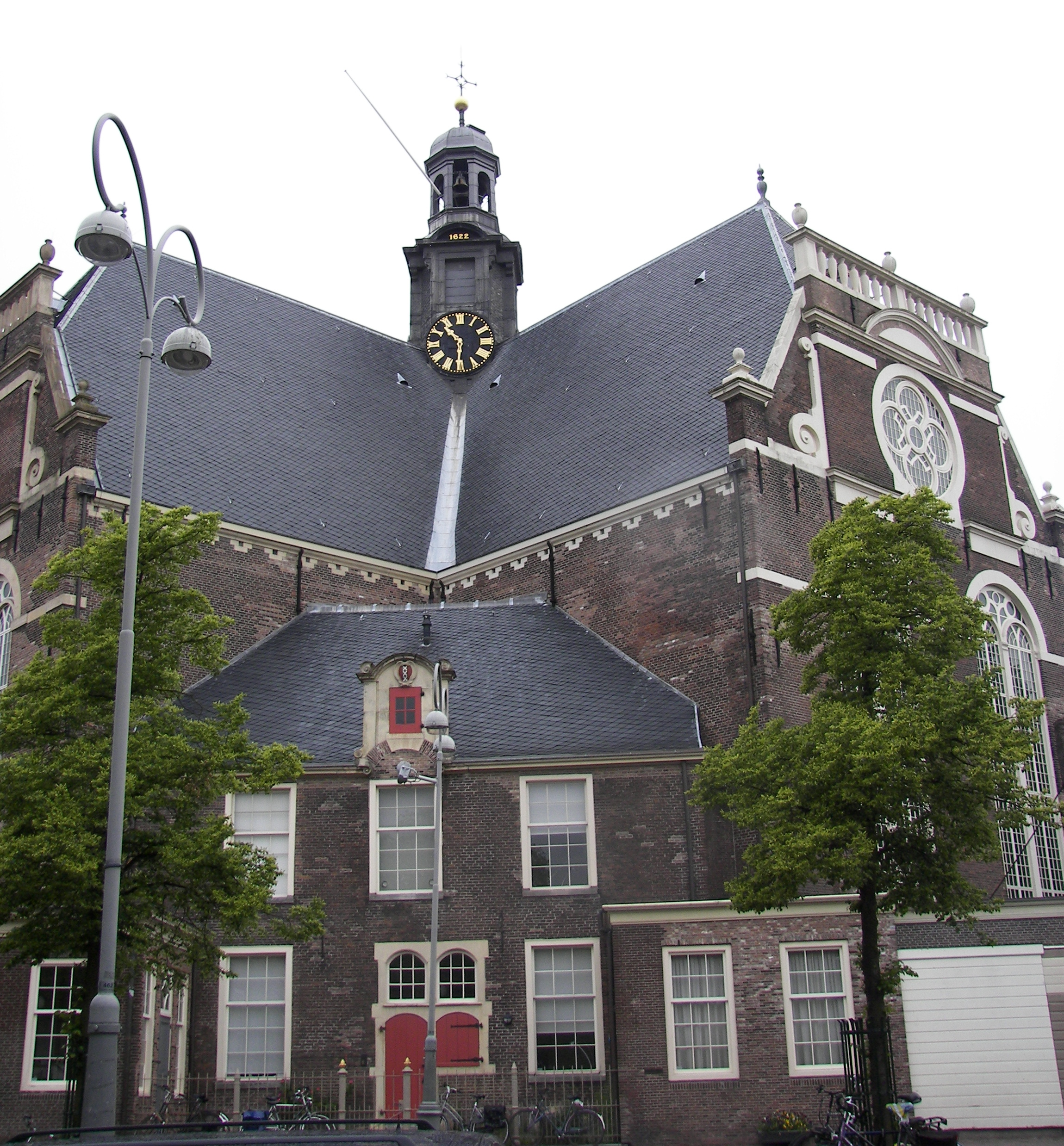 North Church of Amsterdam.